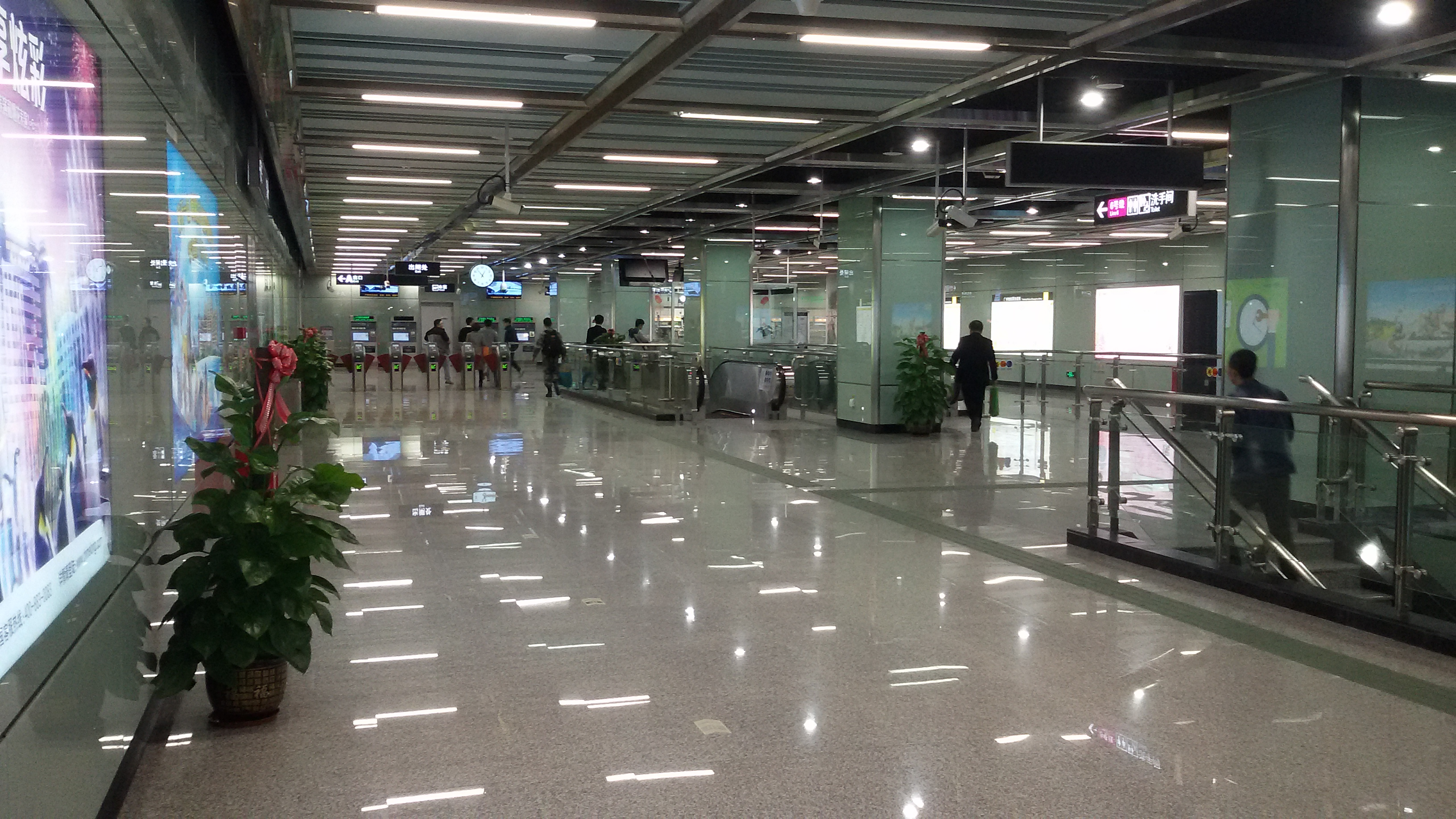 Station Concourse for Gaotangshi Station in Guangzhou Metro.